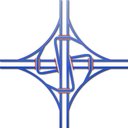 Windmill Road Interchange